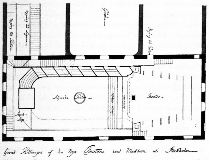 Plan of the Munkbro Theatre, Stockholm